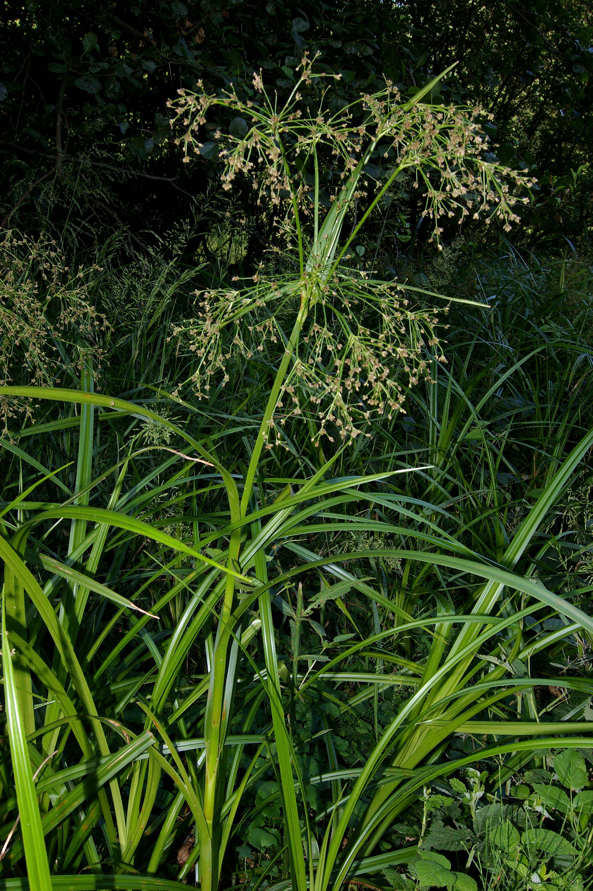 Inflorescence of Scirpus sylvaticus.